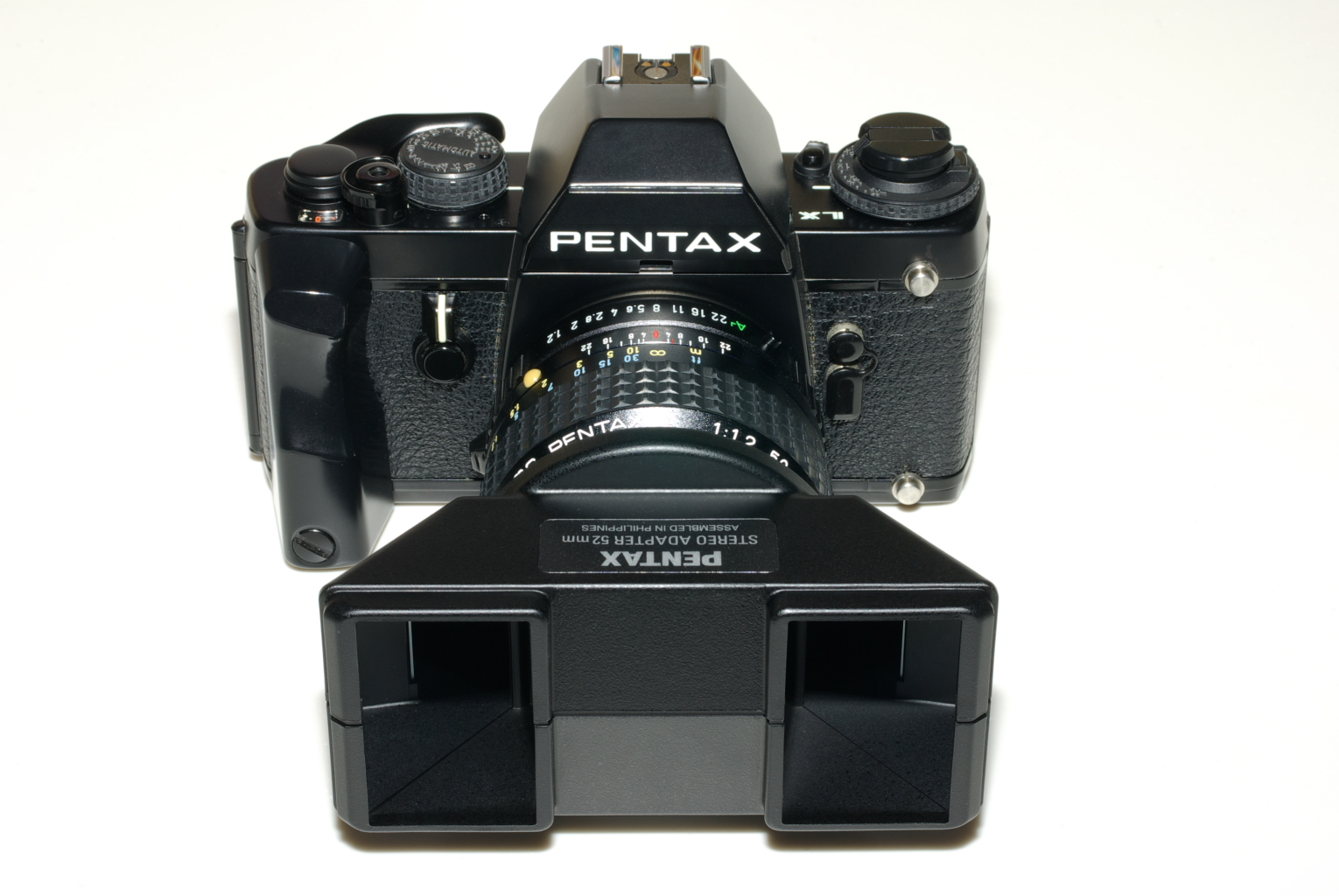 PENTAX STEREO ADAPTER attached to PENTAX LX